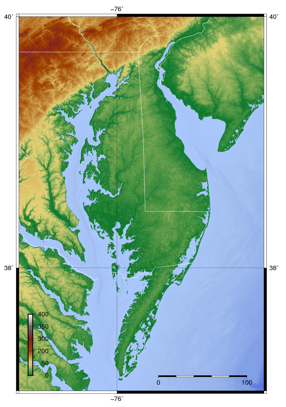 Topography of Delmarva Peninsula, created with GMT 5.2.1